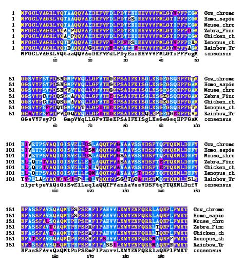 Close homology CLUSTALW comparision for C11orf73